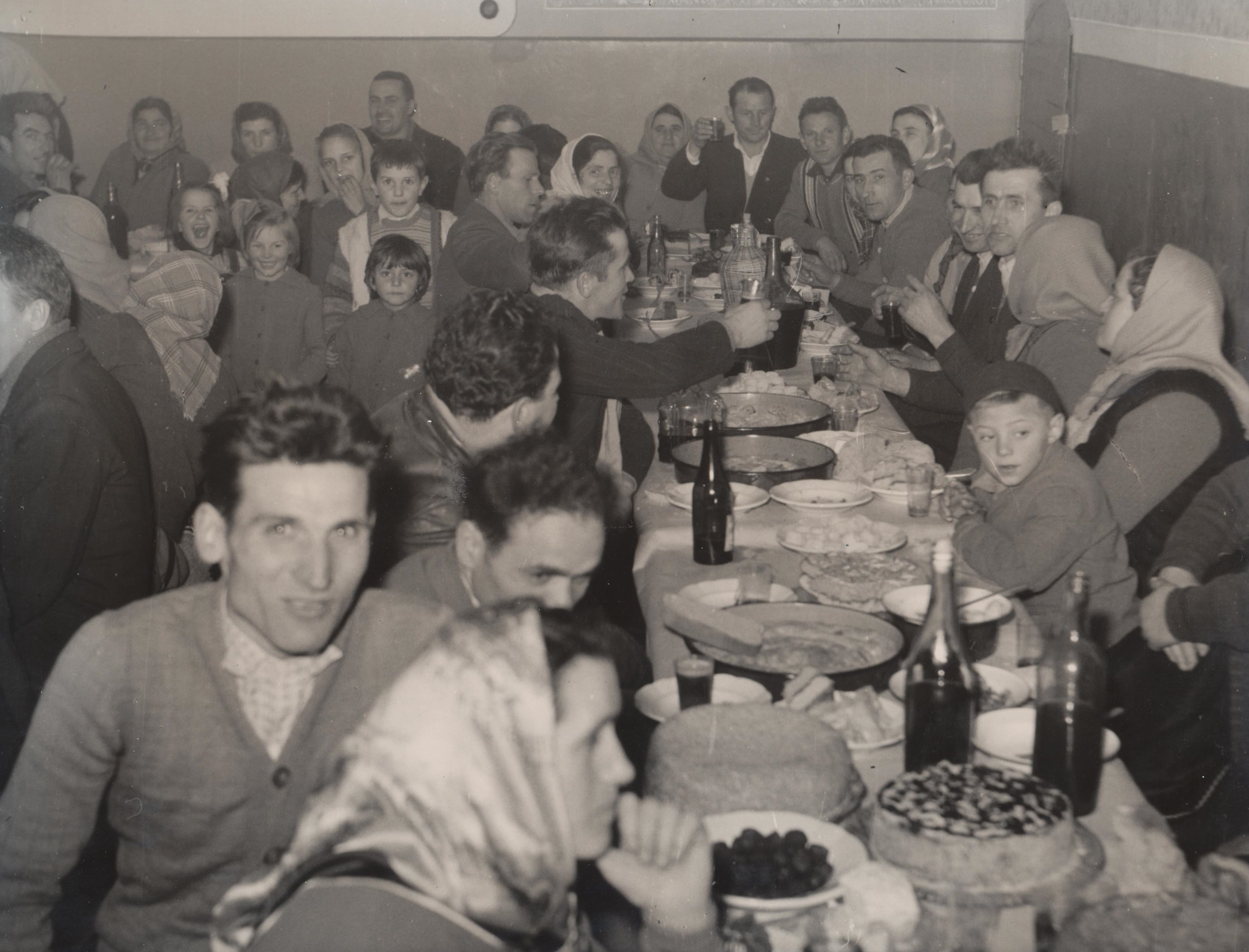 Celebration of the opening of the library in the village of Krupac in 1962